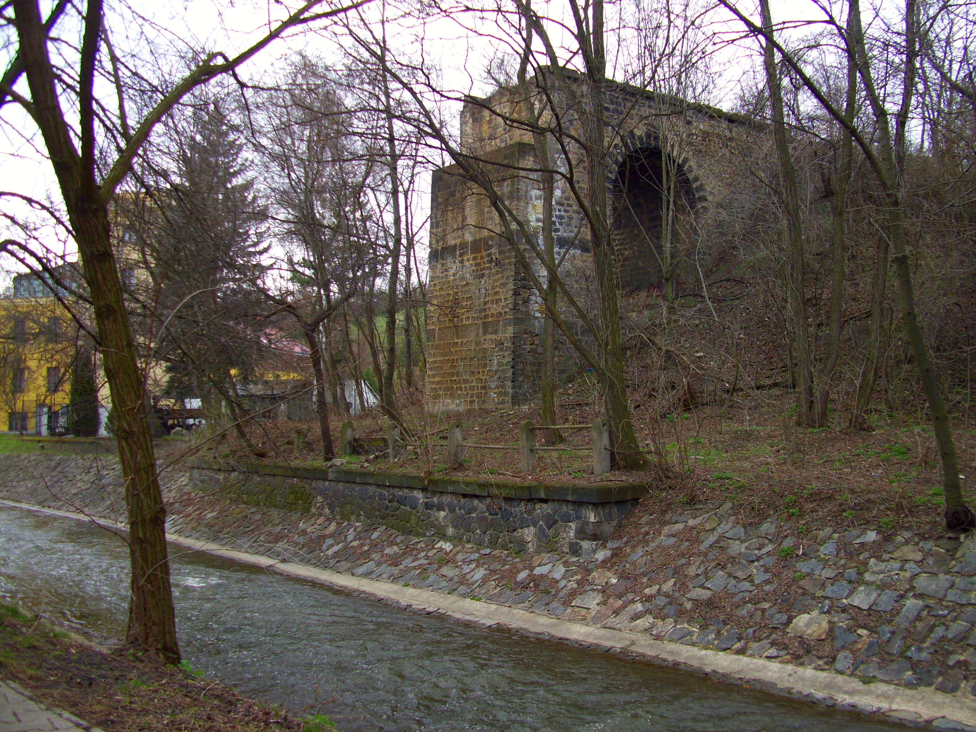 Arc of former railway bridge on right bank of Rokytka in Prague-Libeň. Bridge was constructed and used for track Vysočany – Nádraží Těšnov abandoned in 1984. Steel part of bridge was dismantled.